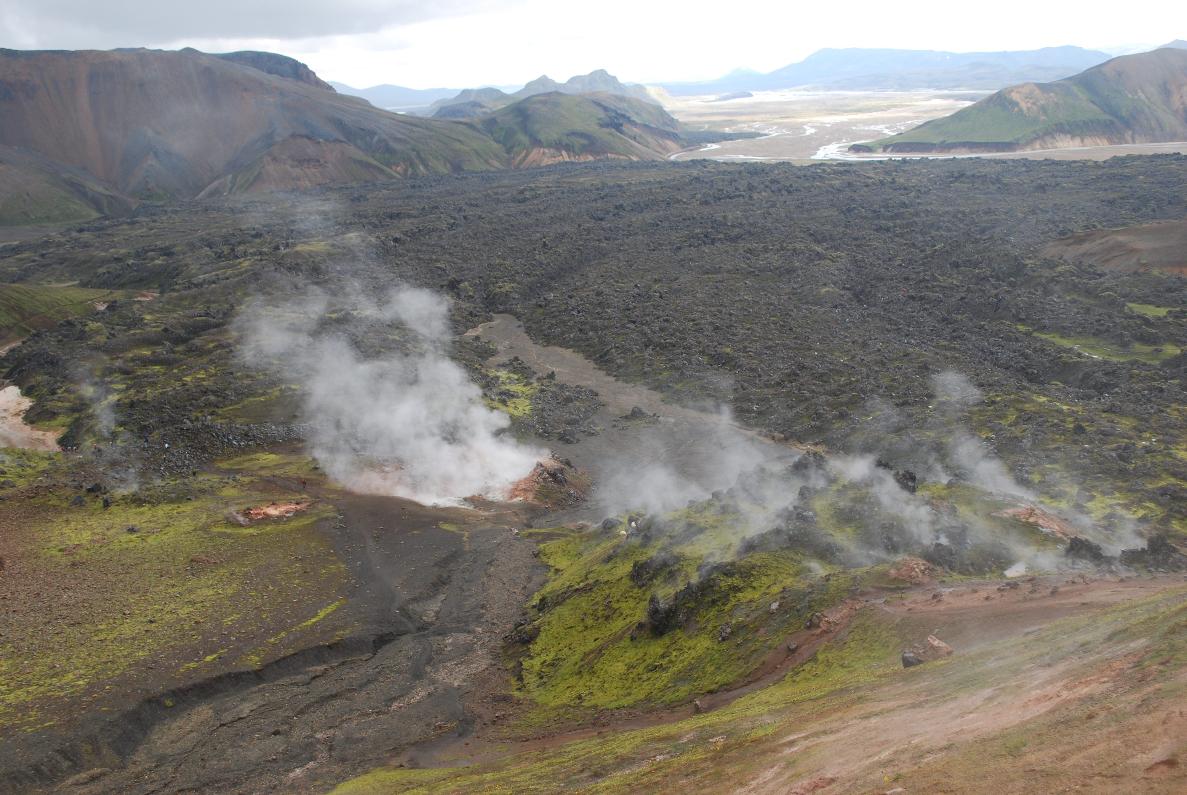 Landmannalaugar area during Laugavegur hiking trail , Iceland